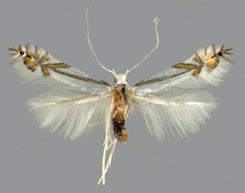 Phyllocnistis tropaeolicola, adult holotype male.